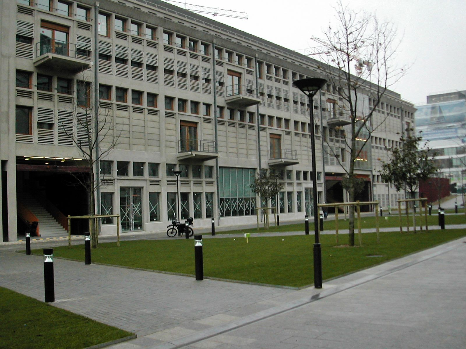 The "Halle aux Farines" in Paris 13, host of the University Paris Diderot